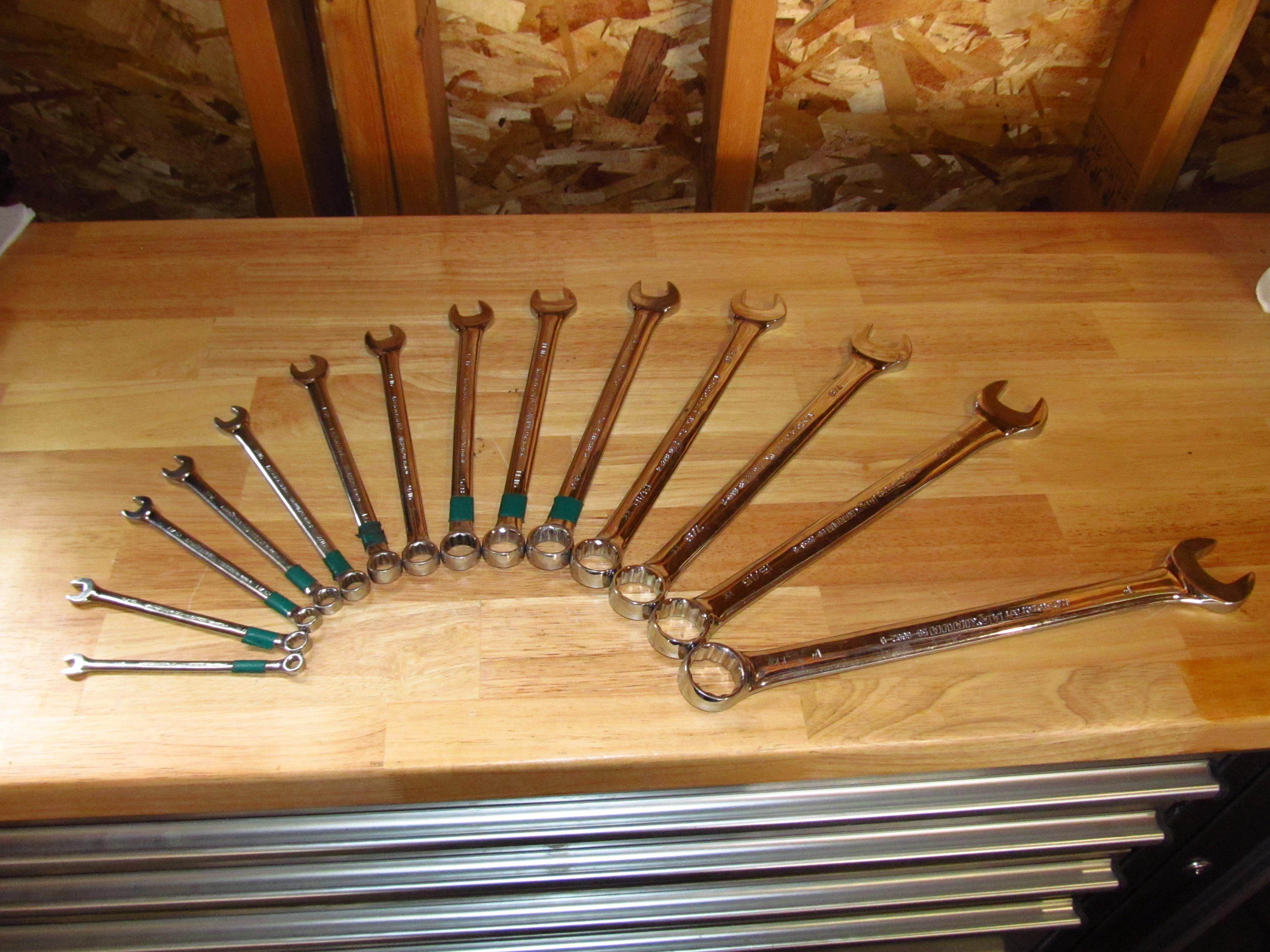 A set of SAE combination wrenches, ranging in size from 1/4-inch to 1-inch.